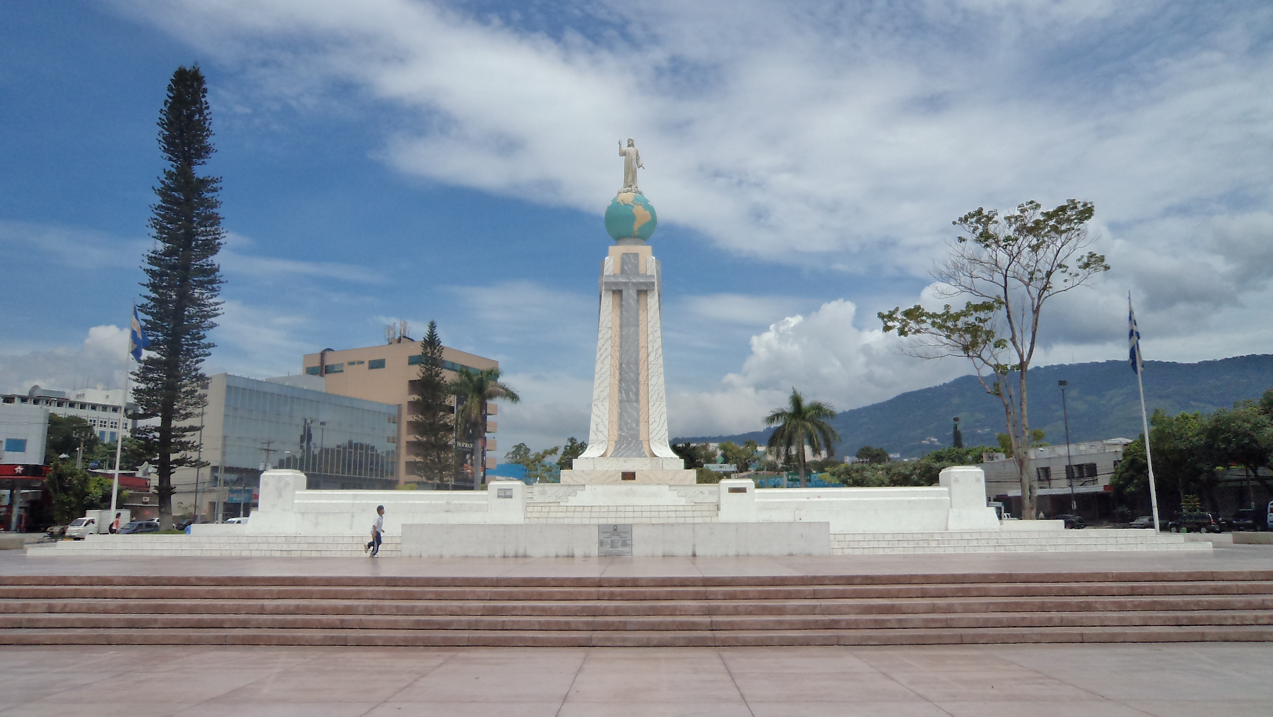 Monumento al Divino Salvador del Mundo (Monument to the Savior of the World) on the Plaza las Américas, San Salvador.